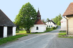 Náves s kapličkou v Zahrádce